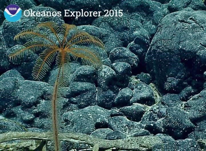 An abyssal feather star (Crinoidea), unidentified specimen of the Bathycrinidae family, observed in deep water off Hawaii by Okeanos Explorer mission 2015. (identification : Christopher Mah, Lenaïg Hemery, Marc Eléaume).